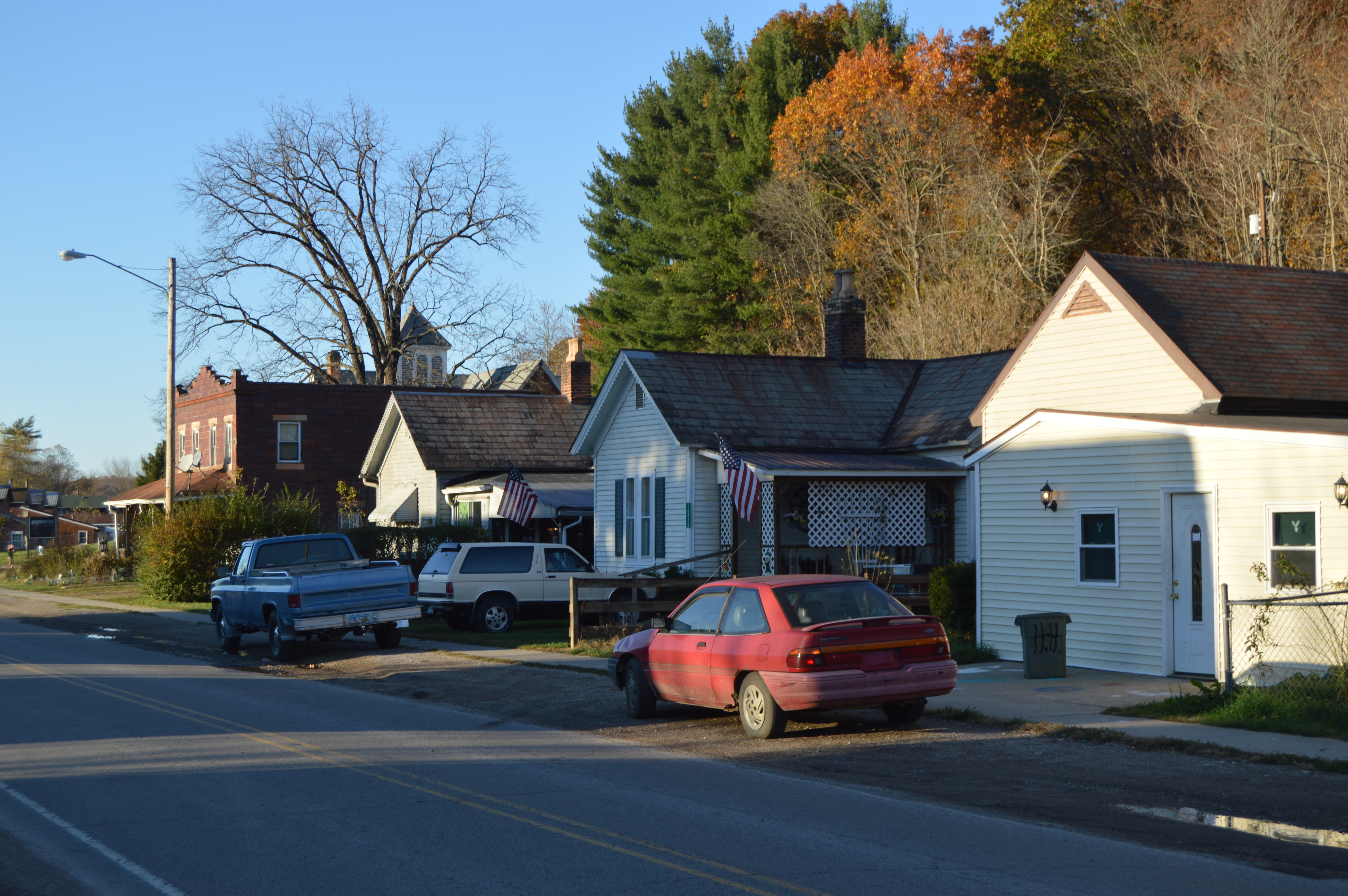 Houses on the northeastern side of Old US 33 in Haydenville, Ohio, United States. Like the rest of the community, these houses are part of a historic district, the Haydenville Historic Town, which is listed on the National Register of Historic Places.